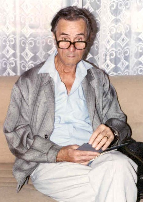 Virgil Nestorescu – chess study composer, at the PCCC-Meeting 1993 in Bratislava